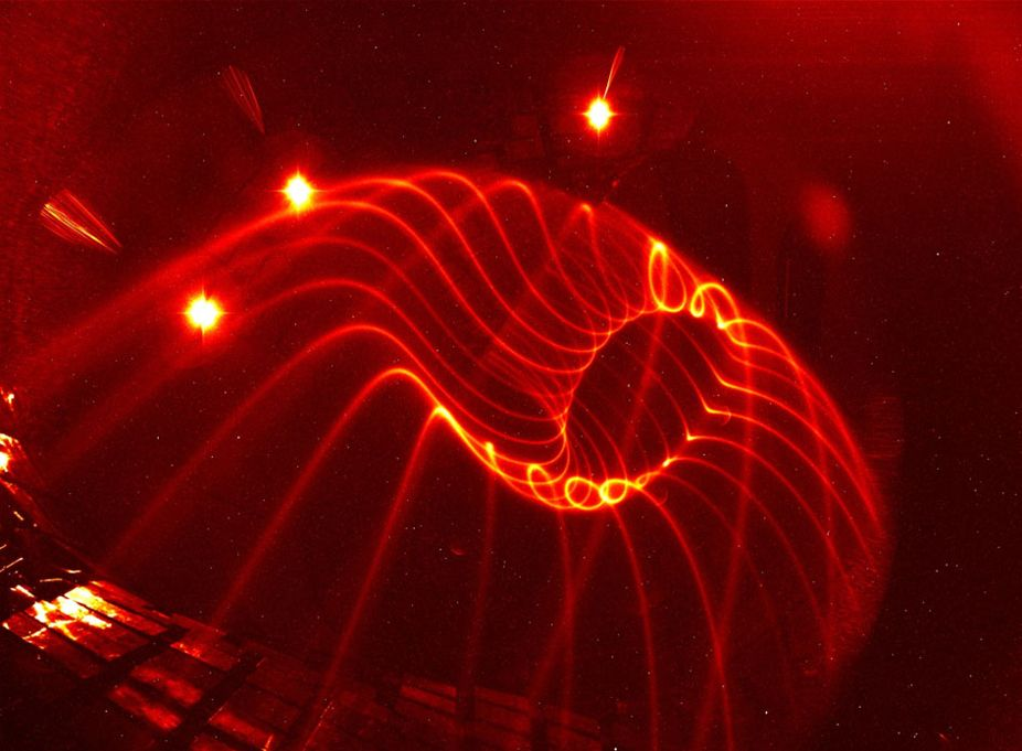 Experimental visualization of the field line on a magnetic surface in Wendelstein 7-X. The field lines making up a magnetic surface are visualized in a dilute neutral gas, in this case primarily water vapour and nitrogen ( p n ≈ 10 − 6 m b a r {\displaystyle p_{n}\approx 10^{-6}\,\mathrm {mbar} } ). The three bright light spots are overexposed point-like light sources used to calibrate the camera viewing geometry.